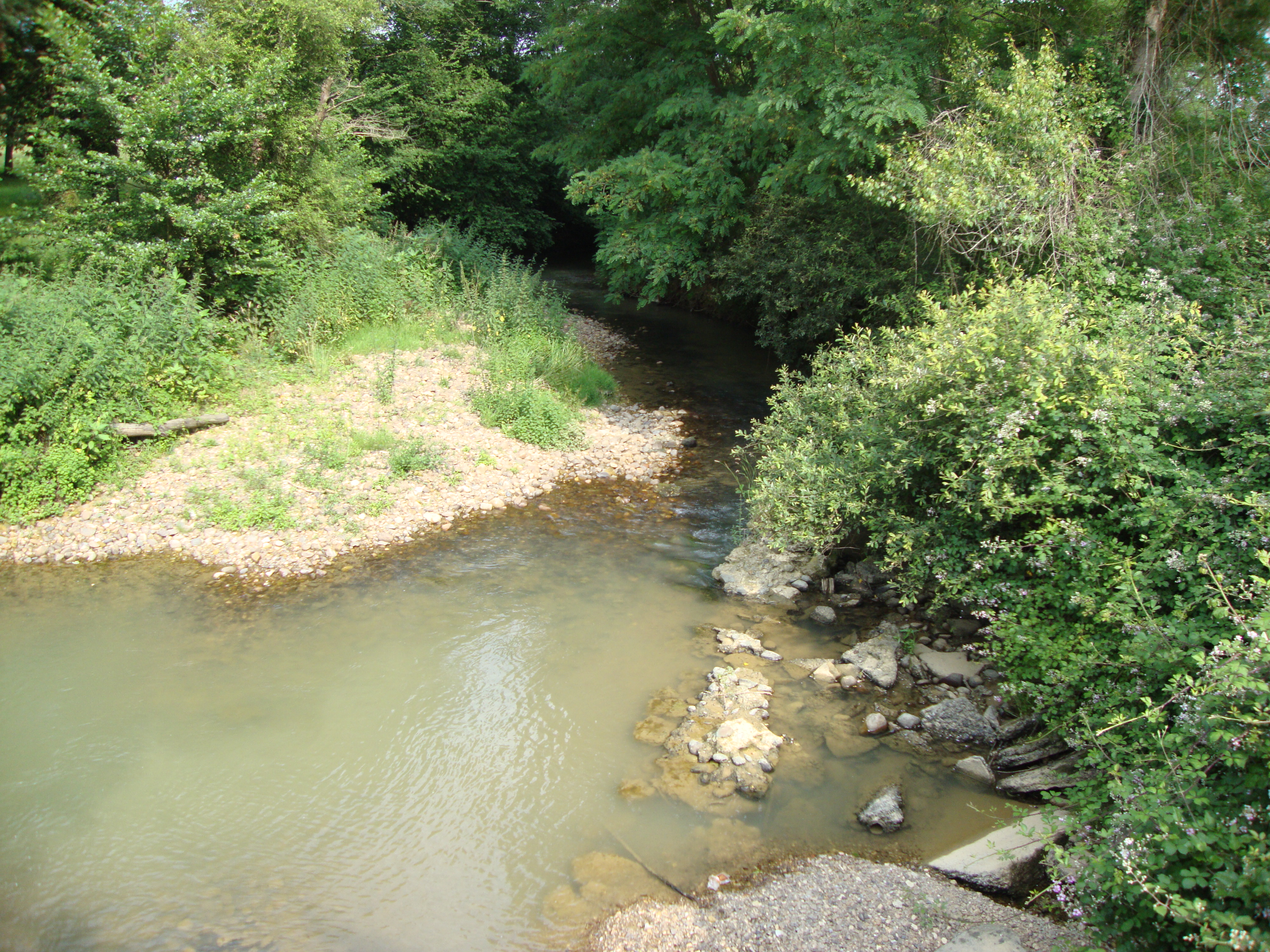 Anoye (Pyr-Atl, Fr), Léez river, also called Lées.JPG